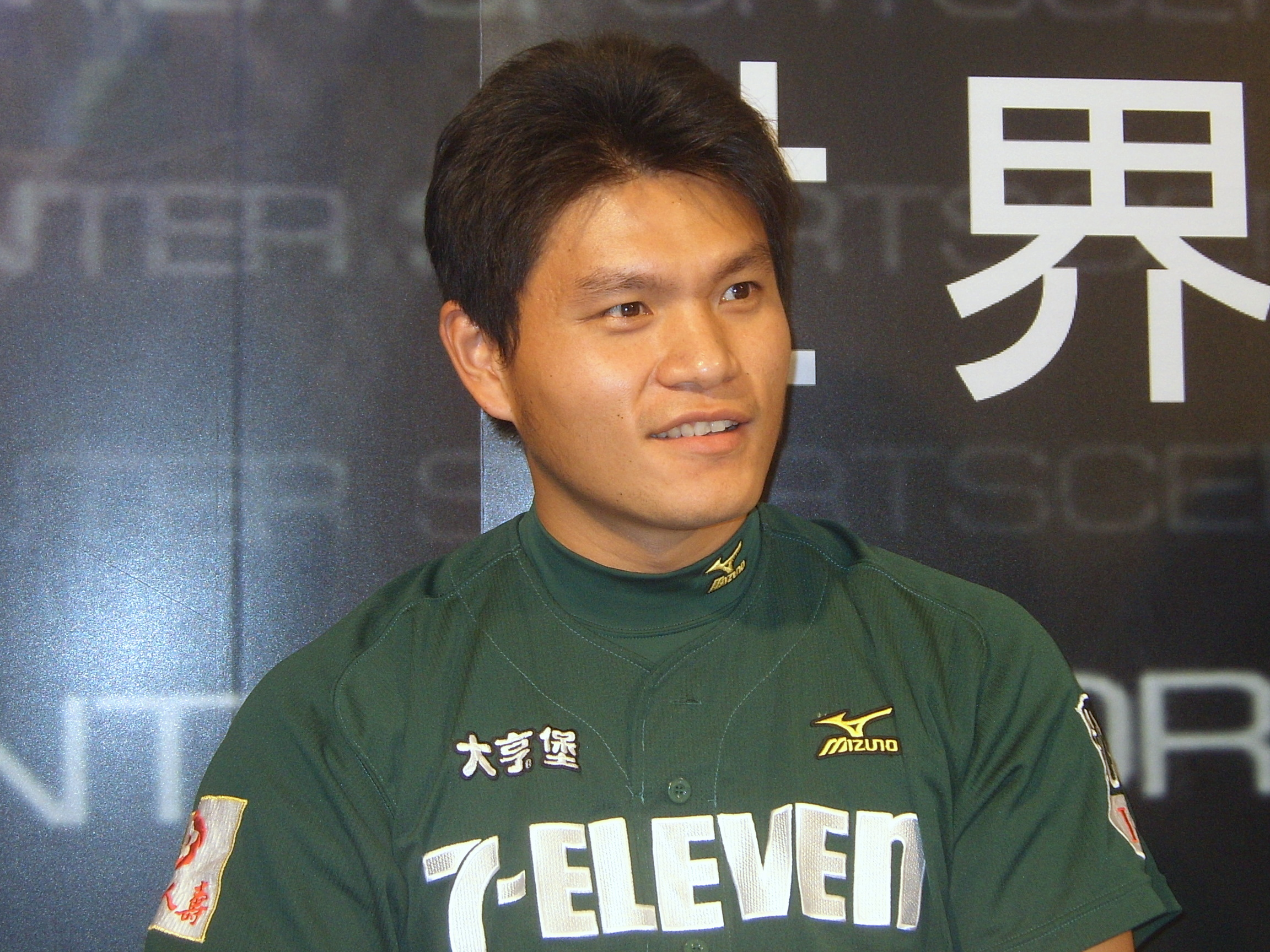 2008 Leisure Taiwan: Wei-lun Pan at ESPN's booth.